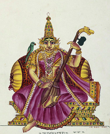 Rajamatangi